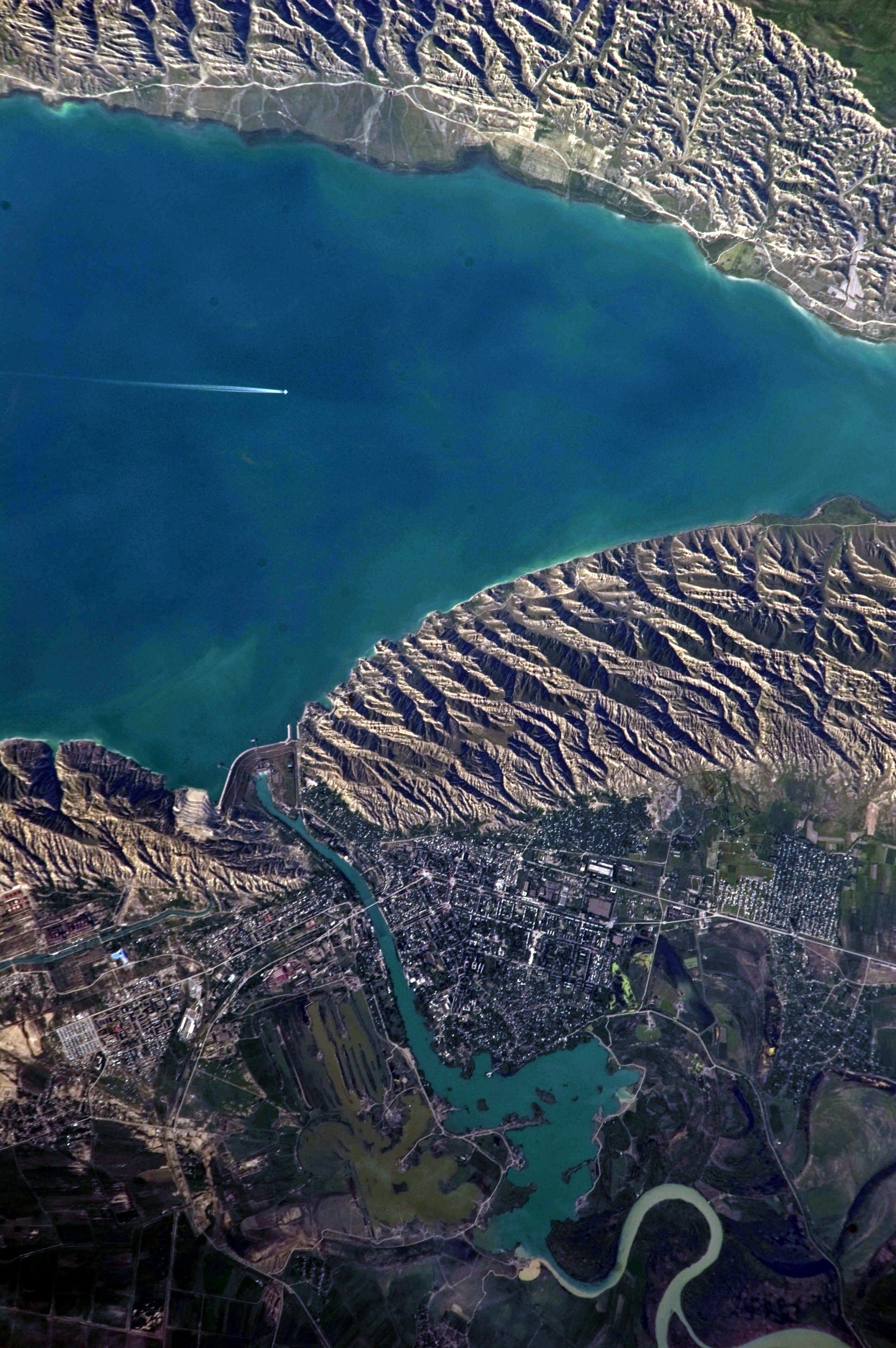 This detailed astronaut photograph highlights the southern Mingachevir Reservoir in north-central Azerbaijan. Folded layers of relatively young (less than 5. 3 million years old) sedimentary rock, explosive volcanic products (ash and tuff), and unconsolidated sediments form the grey hills along the northern and southern shorelines of the reservoir (image centre and right). Afternoon sun highlights distinctive parallel patterns in the hills that are the result of water and wind erosion of different rock layers exposed at the surface. The nearby city of Mingachevir (left) is split by the Kur River after it passes through the dam and hydroelectric power station complex at image top centre. The reservoir held approximately 15 billion cubic meters of water at the time this image was taken, with a total engineered capacity of 16 billion cubic meters. The width of the reservoir illustrated here is approximately 8 kilometres; a jet flying over the reservoir left a contrail midway between the shorelines.